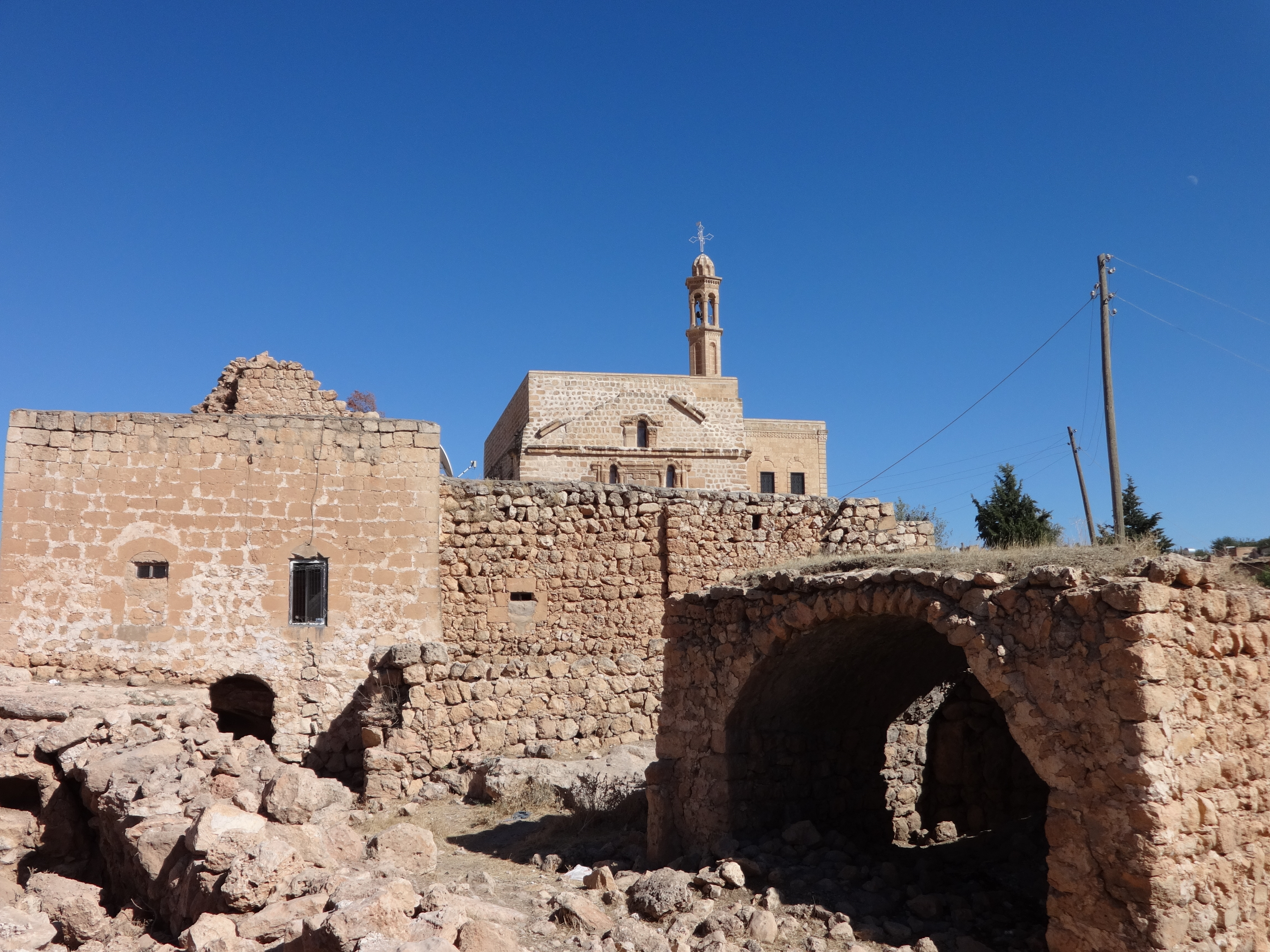 main church in Keferze